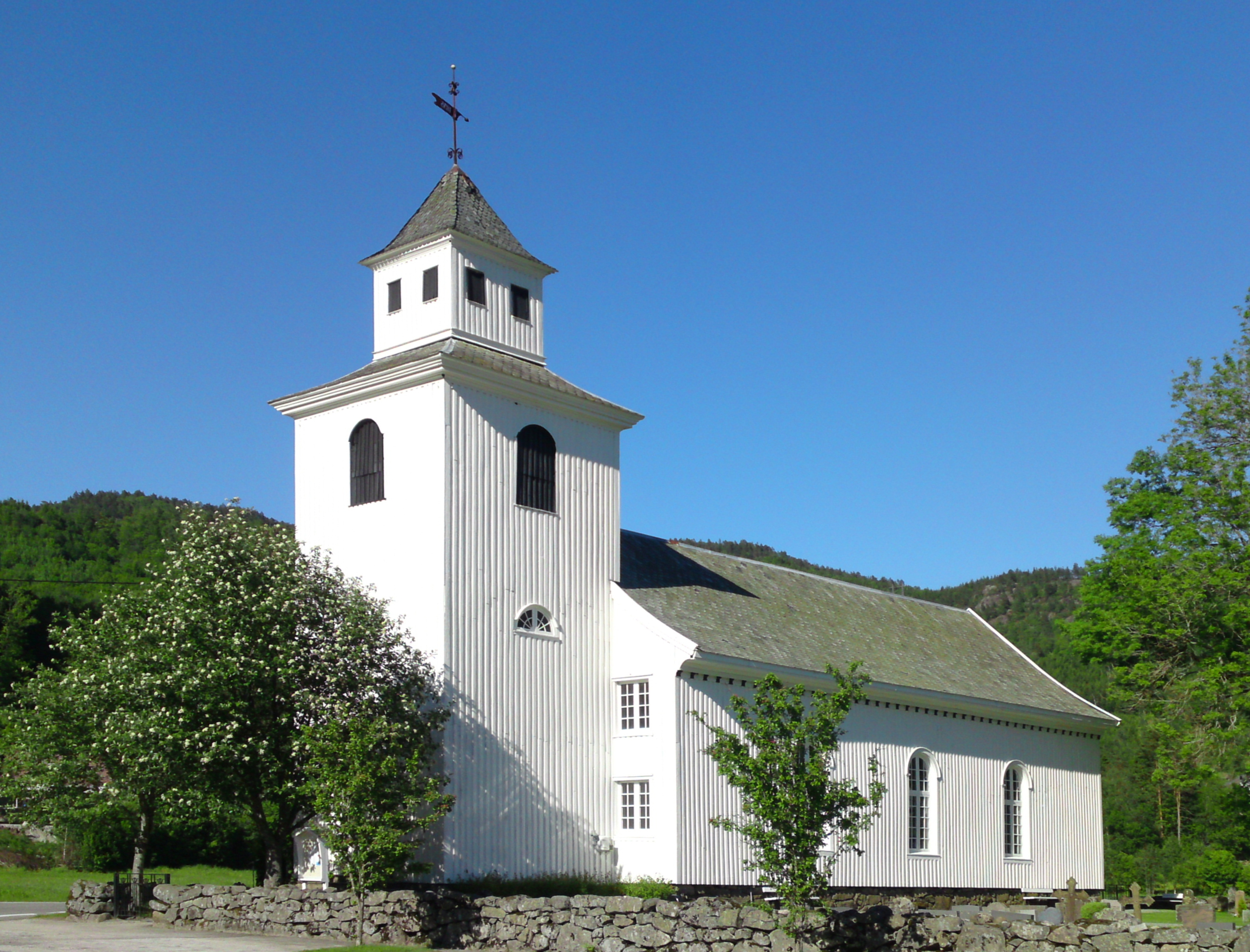 Kvås church in Kvås, Norway Norsk (bokmål): Kvås kirke i Kvås, Vest-Agder